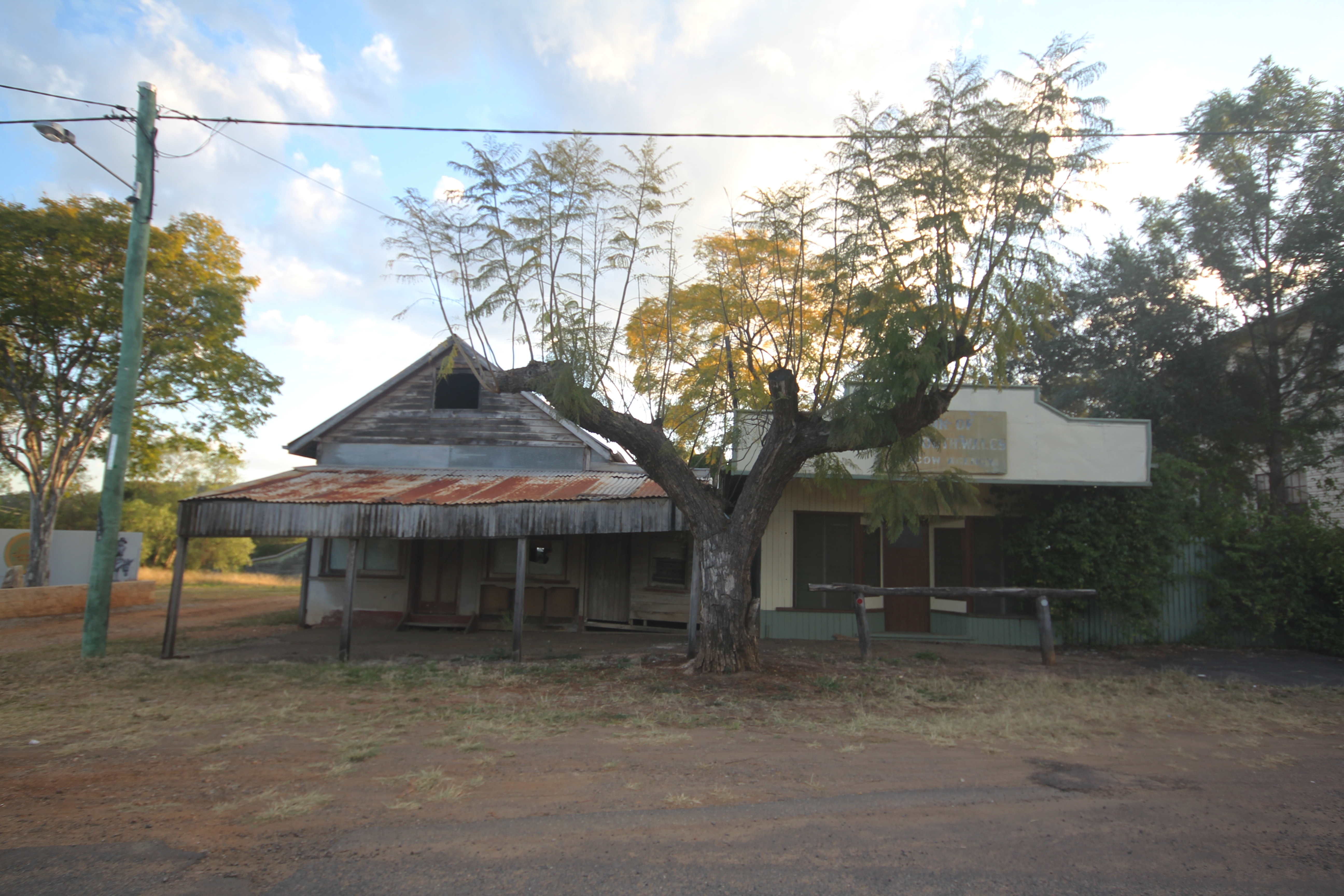 Two abandoned shops in Cracow, Queensland. The right building's sign reads "Bank of New South Wales Cracow Agency".